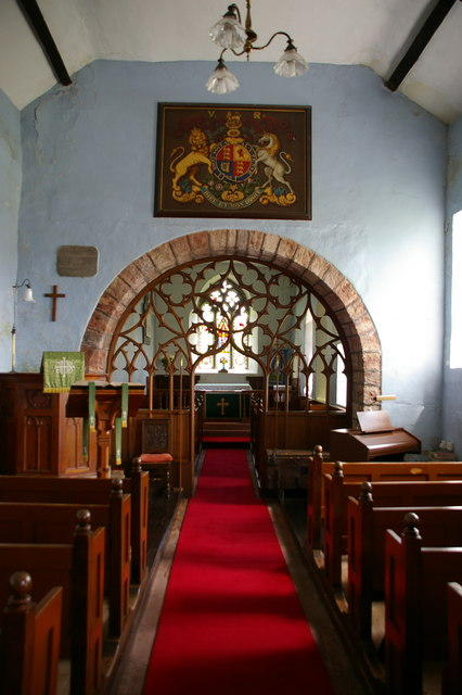 Interior, All Saints Church, Bolton